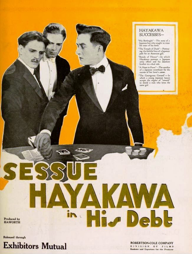 Ad for the American film His Debt (1919) with Sessue Hayakawa, in the color insert after page 982 of the May 17, 1919 Moving Picture World.